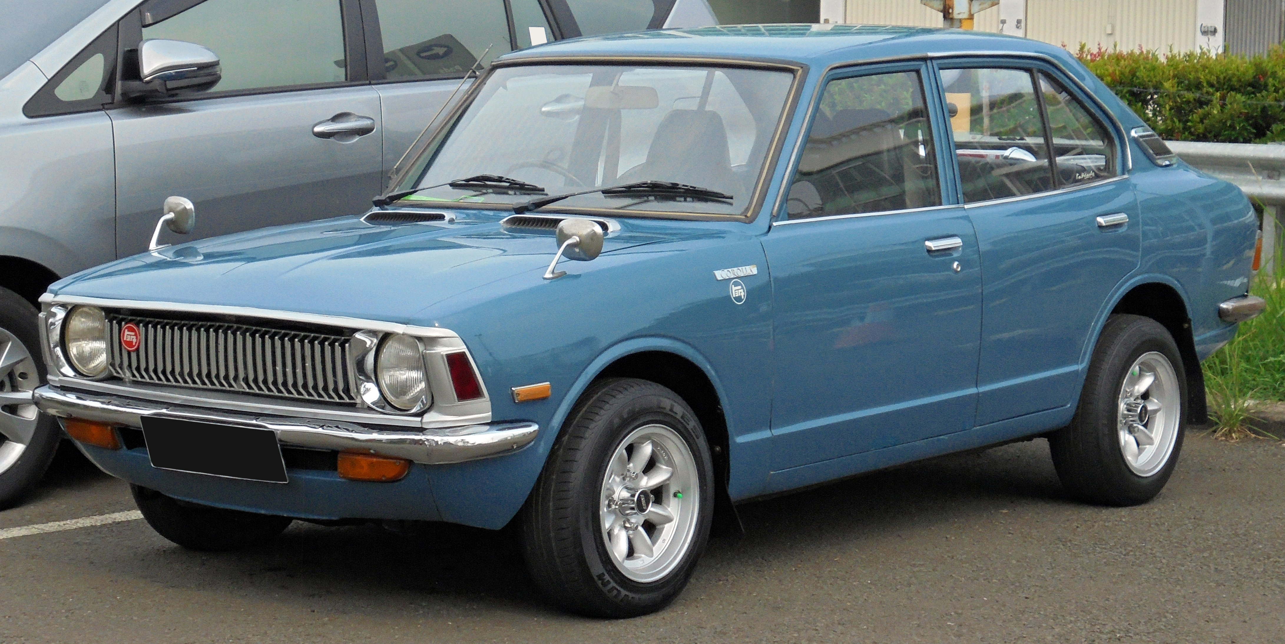 1970-1975 Toyota Corolla 1.2 (KE20R)